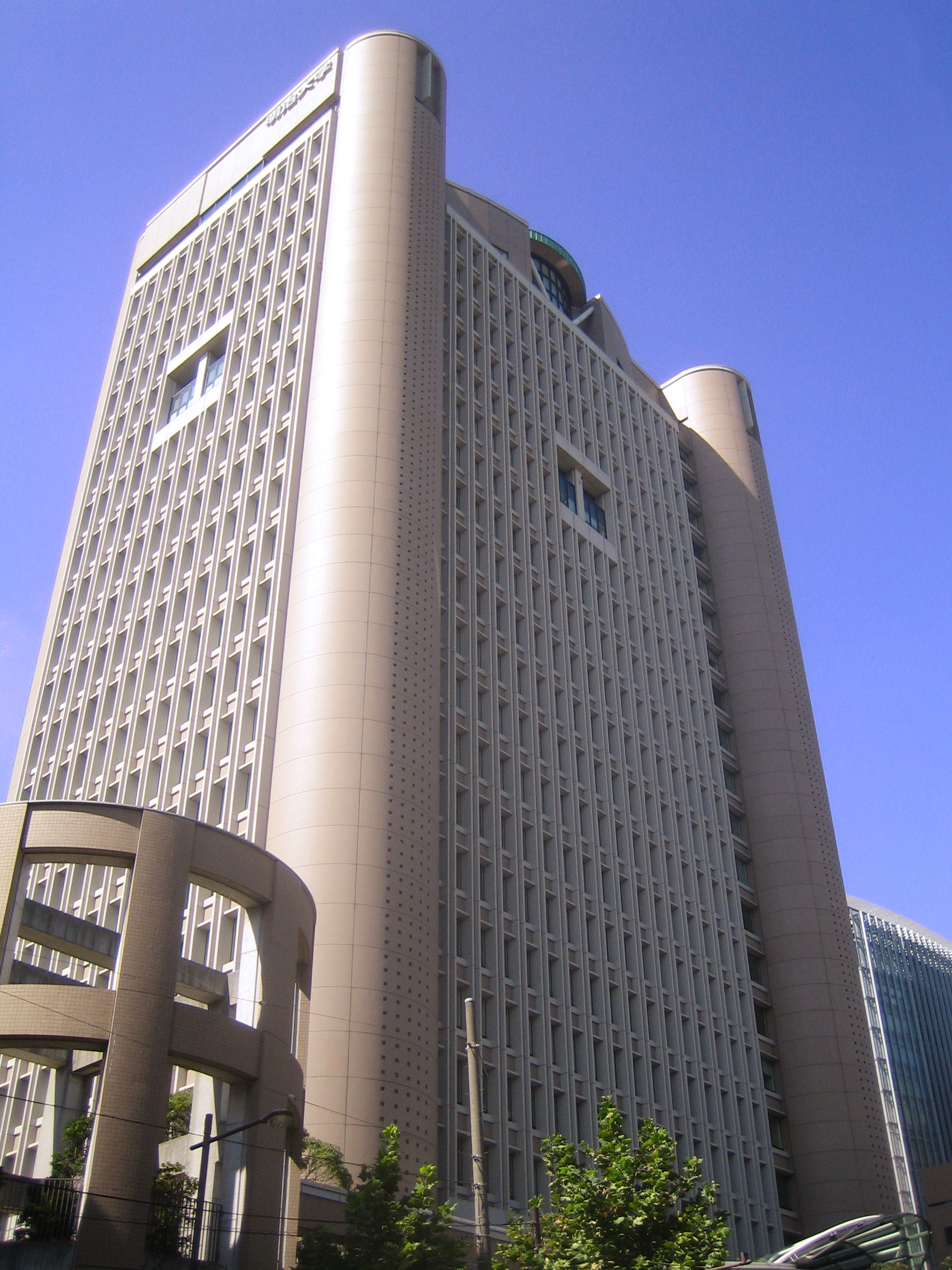 Liberty Tower (リバティタワー), in Meiji University (明治大学) Surugadai Campus. It stands at Kanda-Surugadai, Chiyoda, Tokyo, Japan